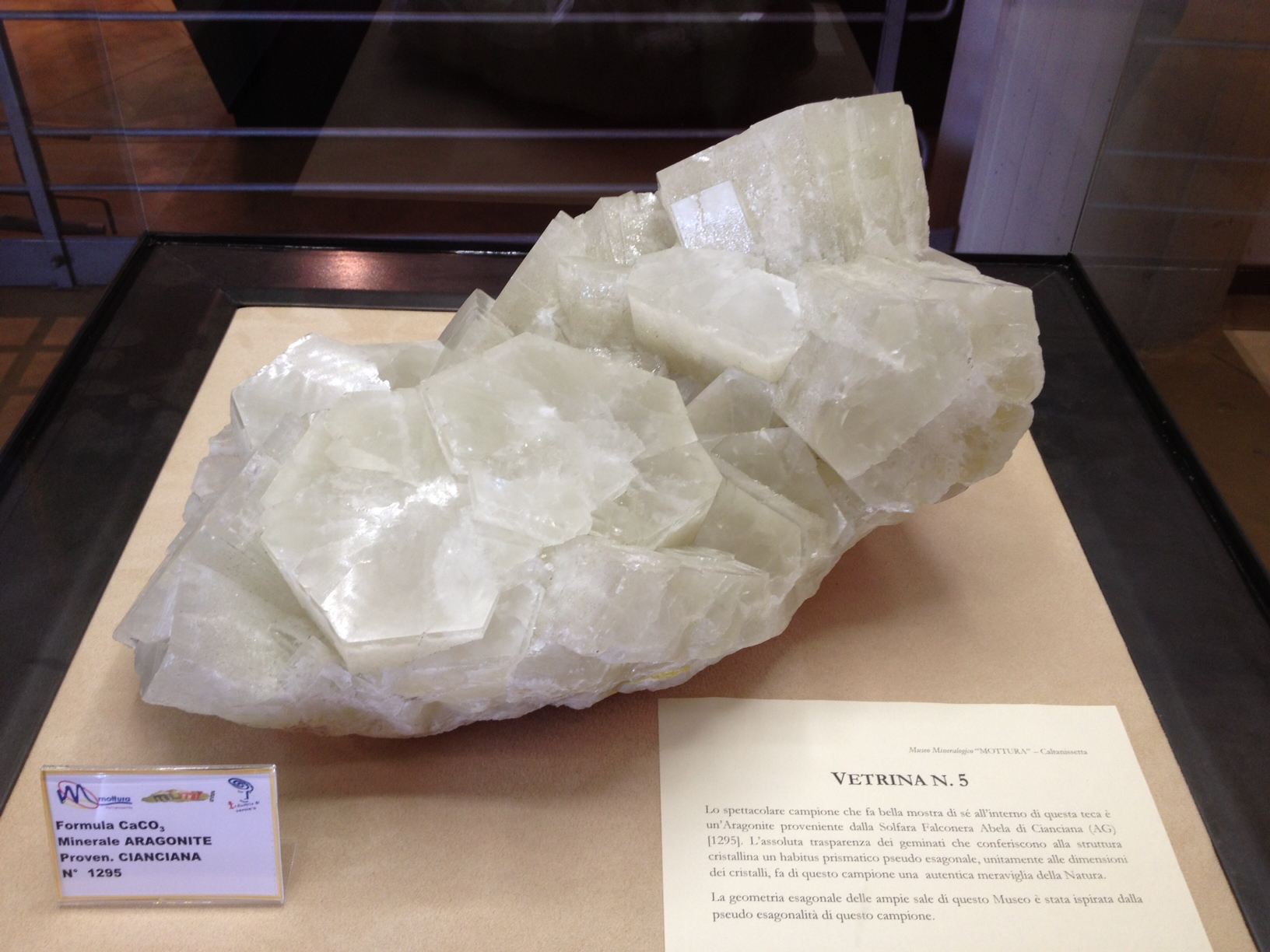 Crystal of aragonite exposed at mineralogy museum of Caltanissetta, Italy